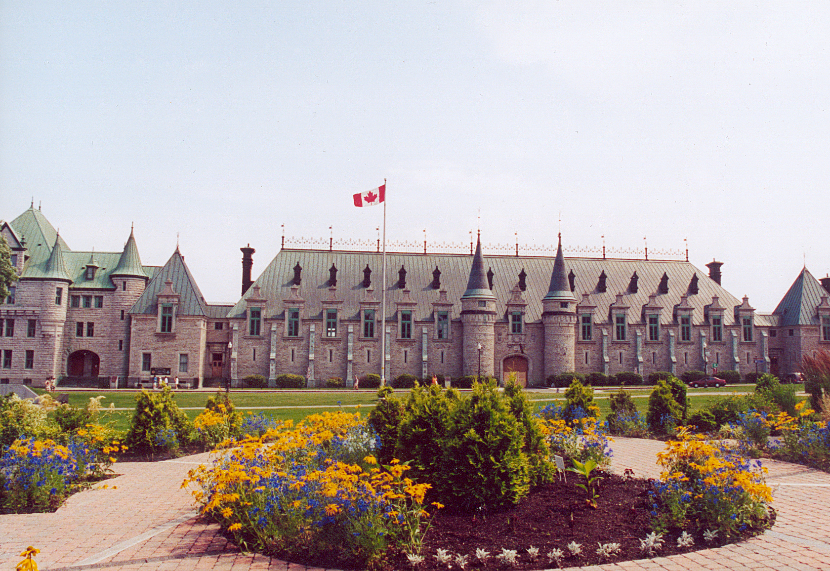 A view of Quebec's Manège Militaire (old armoury) in Québec City, Canada